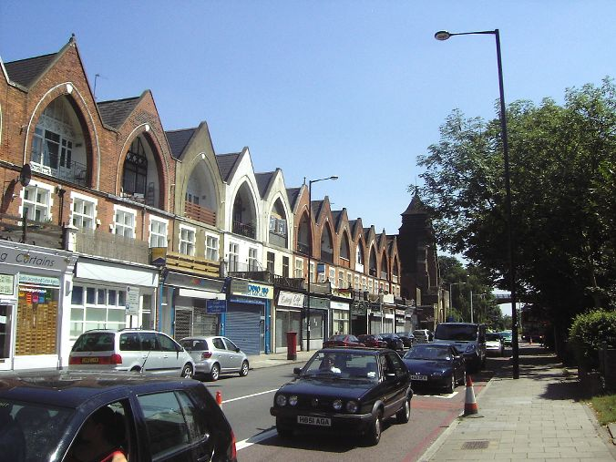 I took this photo myself.